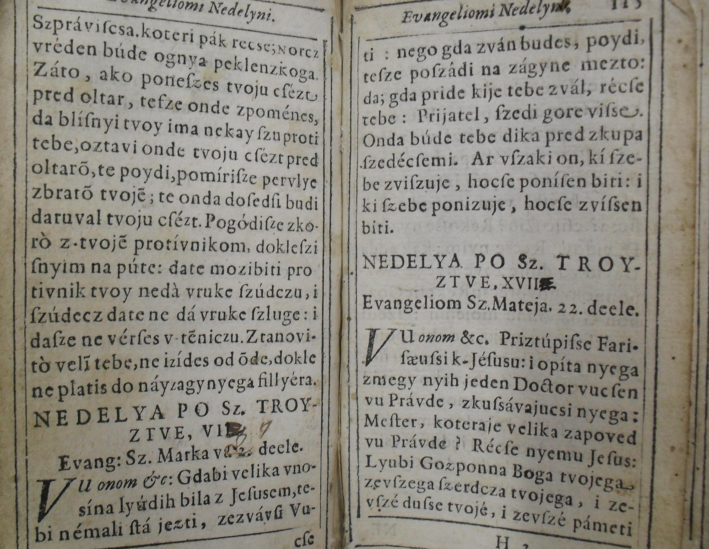 Gospel of Marc and Math in Kajkavian Croatian language, in the Nikola Krajačević: Szveti evangeliomi (1651)